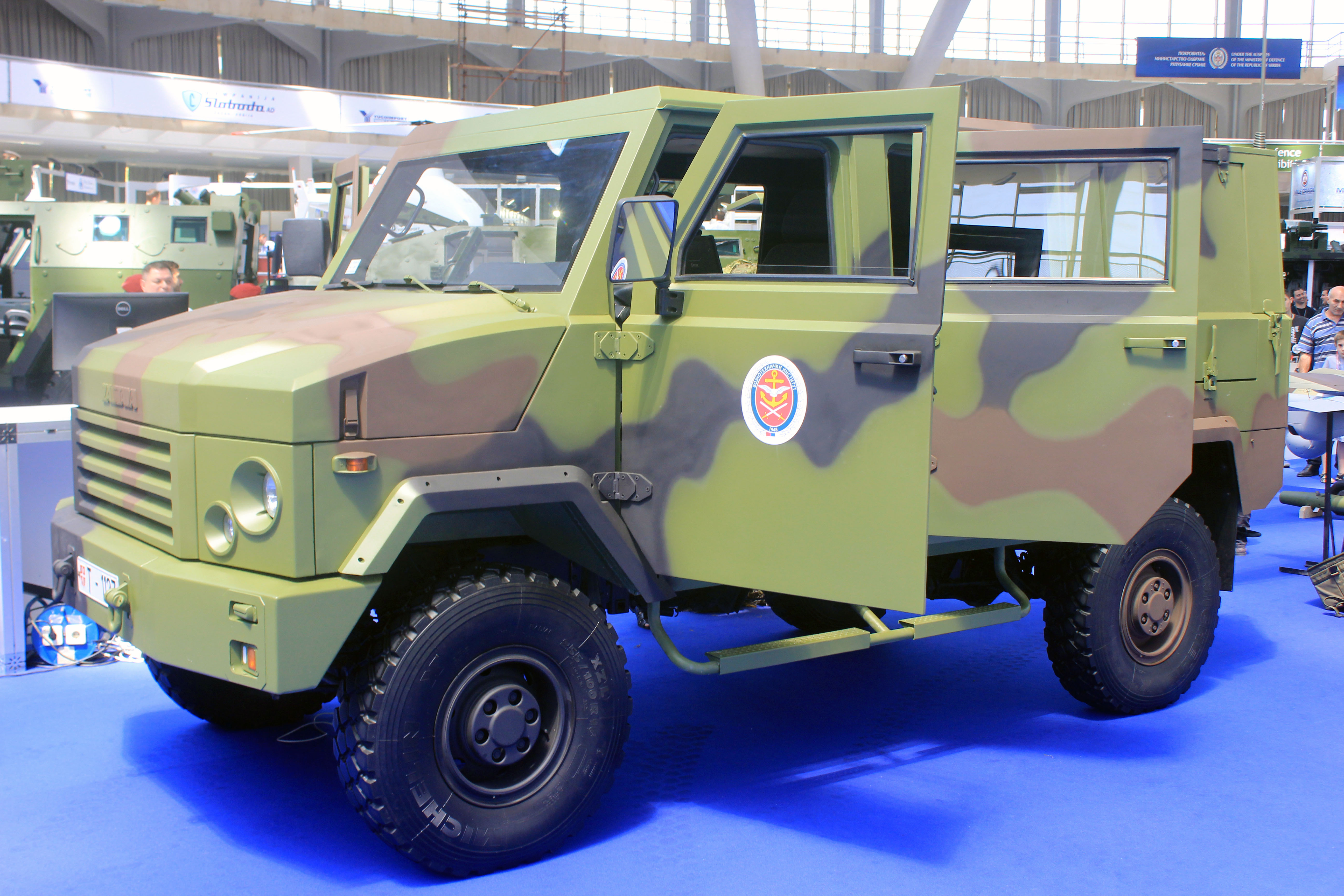 Zastava NTV military vehicle on display at "Partner 2017" military fair.